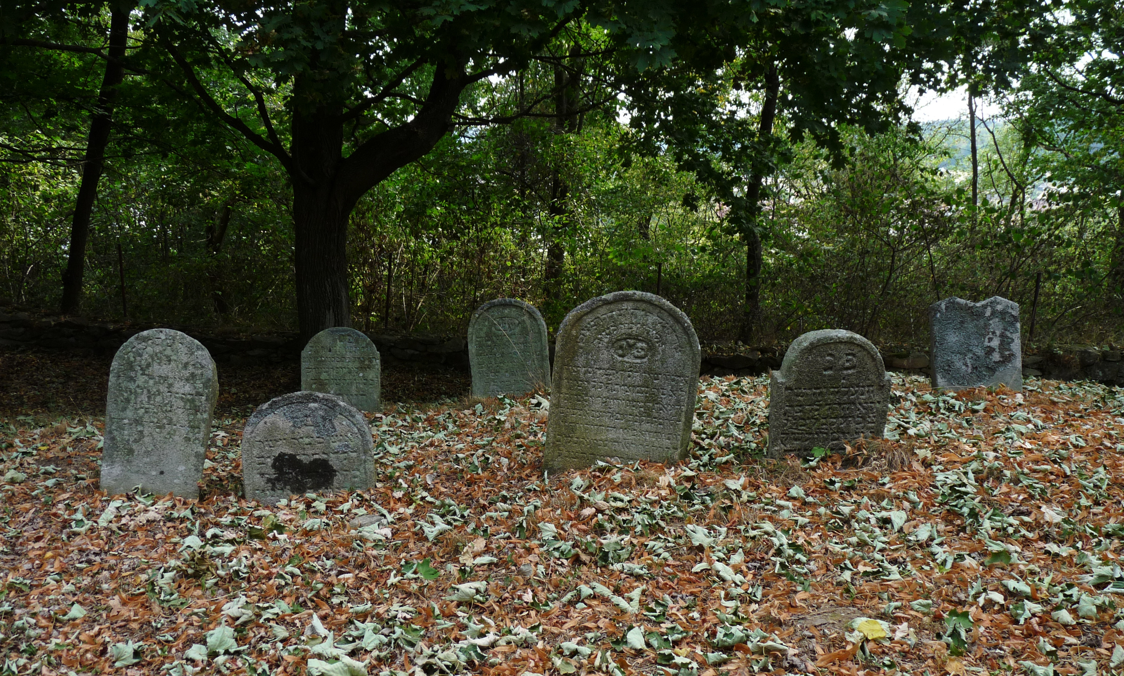 Gravestones in the Jewish cemetery by the village of Batelov, Jihlava District, Vysočina Region, Czech Republic.